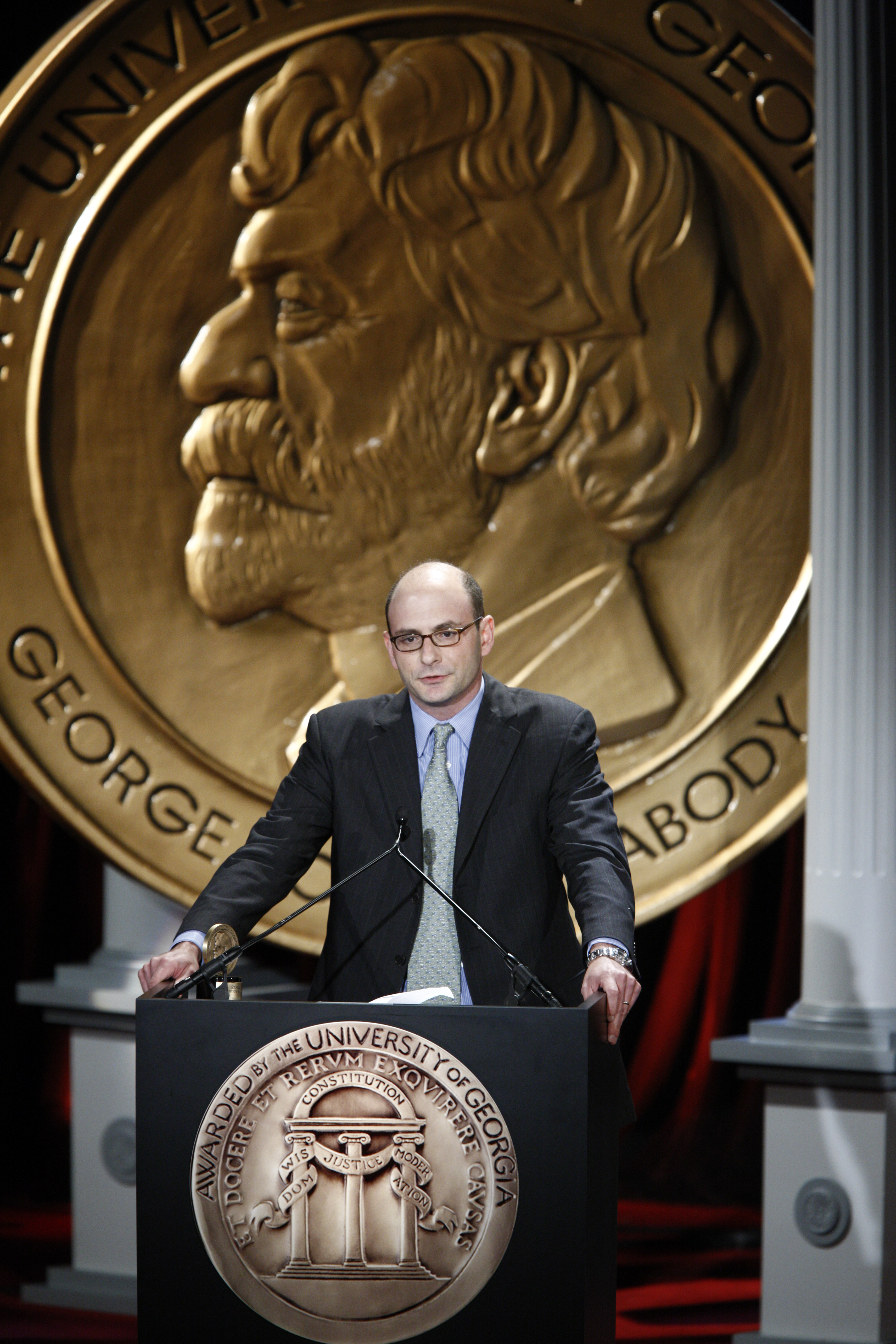 PHOTO CREDIT: ANDERS KRUSBERG / PEABODY AWARDS Jordan Hoffner 68th Annual Peabody Awards Luncheon Waldorf=Astoria Hotel New York, NY USA May 18, 2009